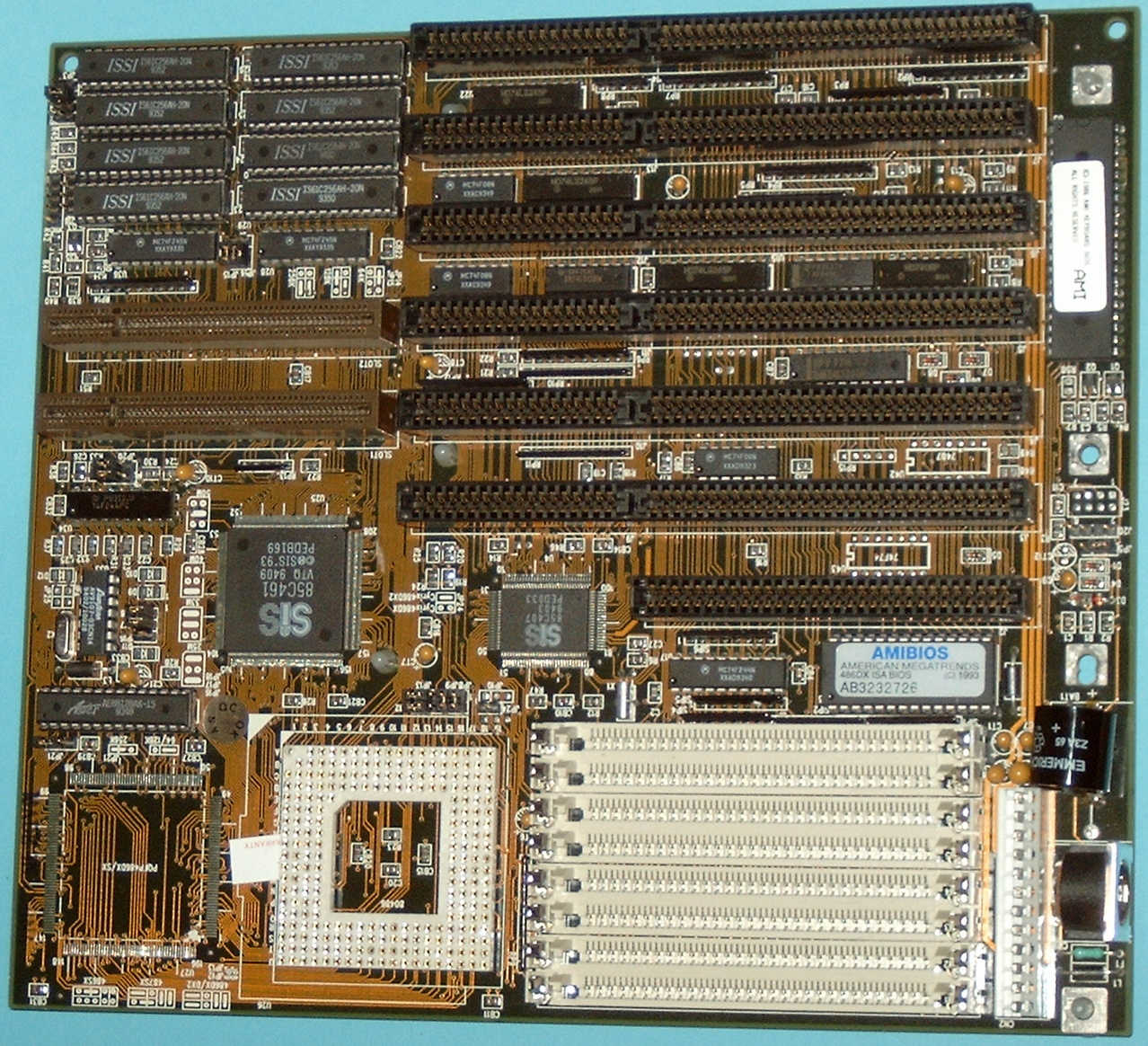 i486 ISA-/VL-bus-mainboard, year of manufacture 1994